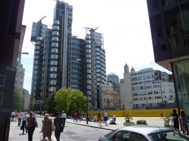 View of Lloyd's of London from St. Mary Axe